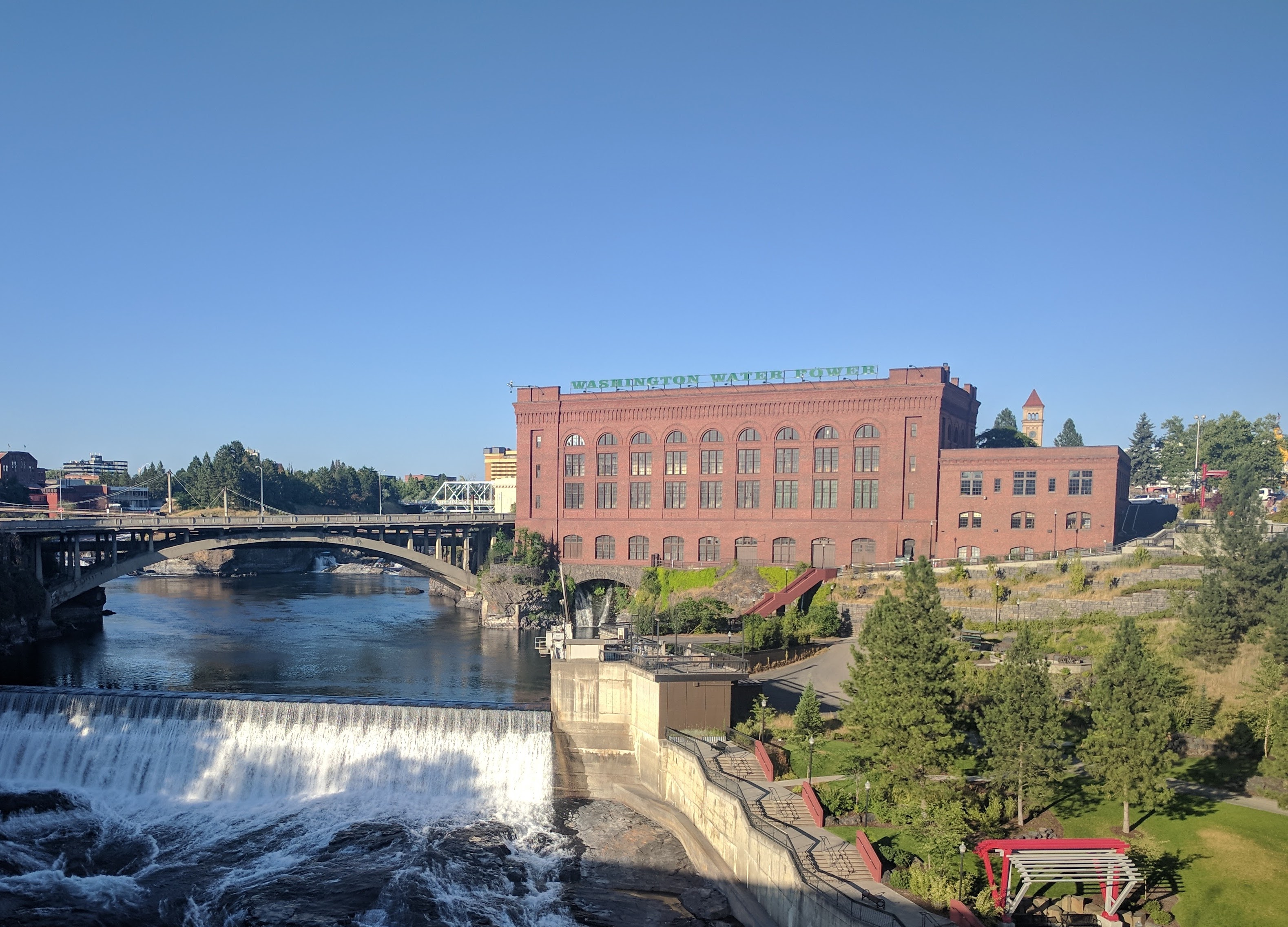 A view of the Post Street substation in Spokane, Washington on a sunny day taken from the Monroe Street Bridge. The Riverfront Park clock tower is visible in the background.